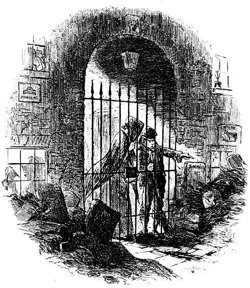 Consecrated Ground Phiz (Hablot K. Browne) 1853 Etching 4 1/8 x 4 1/8 inches on a page of 8 7/16 x 5 inches Facing p. 123 of Dickens's Bleak House